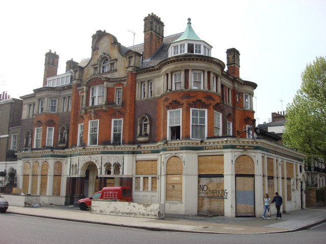 Crocker's Folly, Aberdeen Place Crocker's Folly, Aberdeen Place, built in 1889.